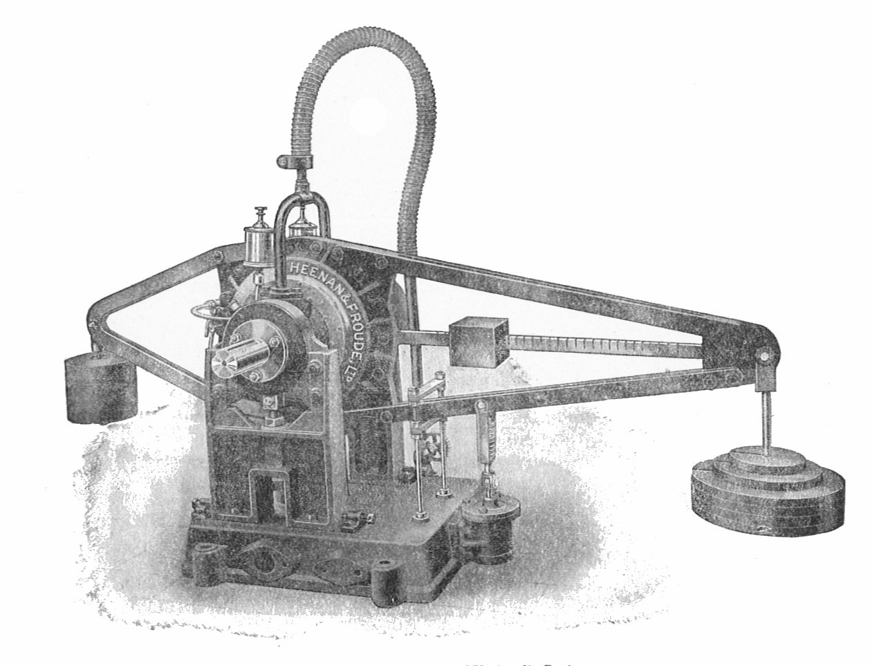 Fig. 23 Latest Type of Hydraulic Brake Heenan & Froude hydraulic dynamometer